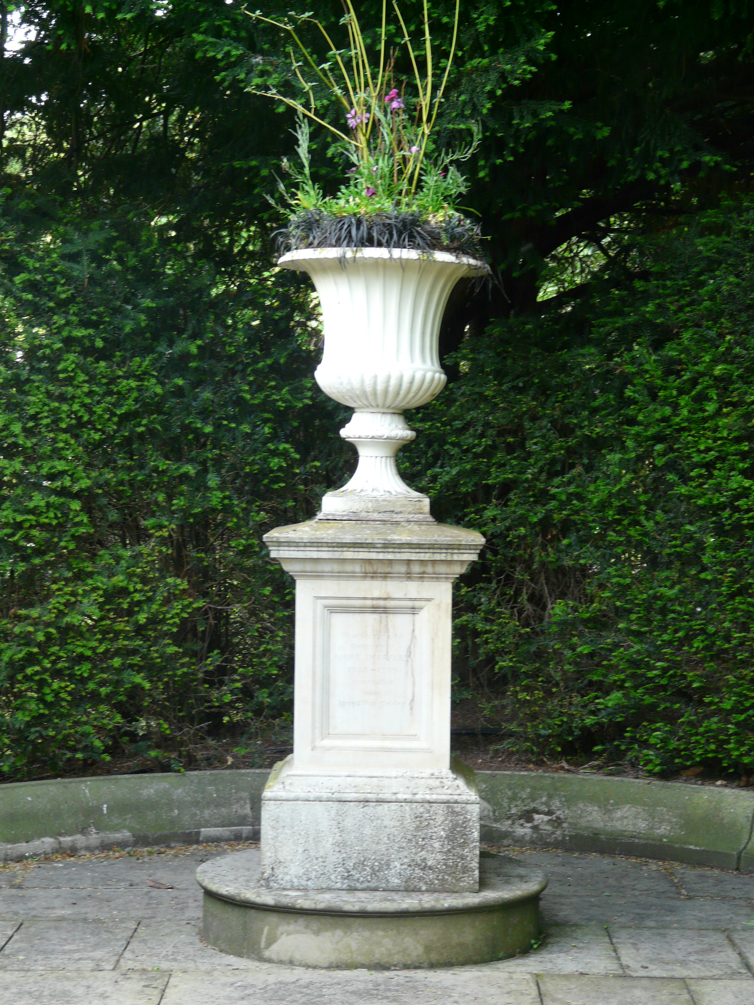 Memorial to Anne Sharpley, St John's Lodge Garden, Regent's Park, London. The making of this file was supported by Wikimedia UK.